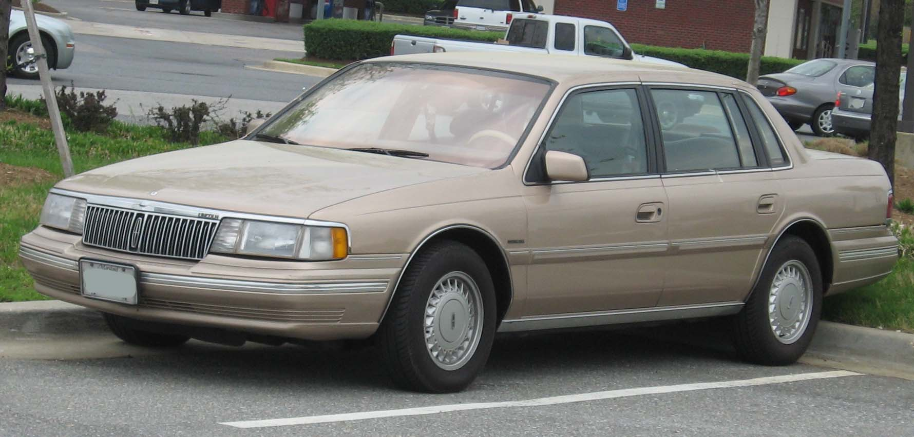 1990-1993 Lincoln Continental photographed in USA.